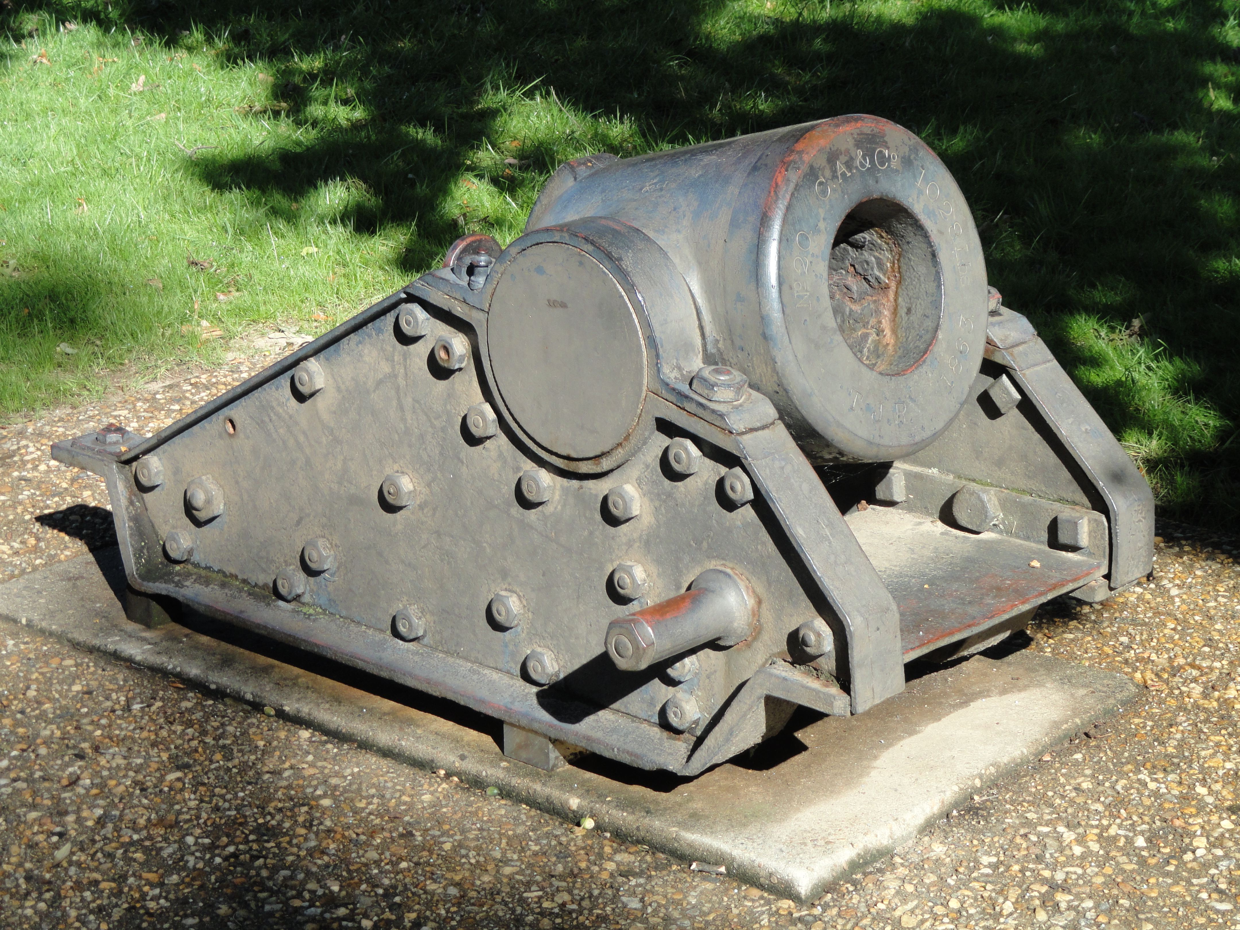 Cyrus Alger & Co. No. 20 mortar, cast in 1863. Artillery used in the American Civil War; now located on the grounds of the North Carolina State Capitol, Raleigh, North Carolina, USA.